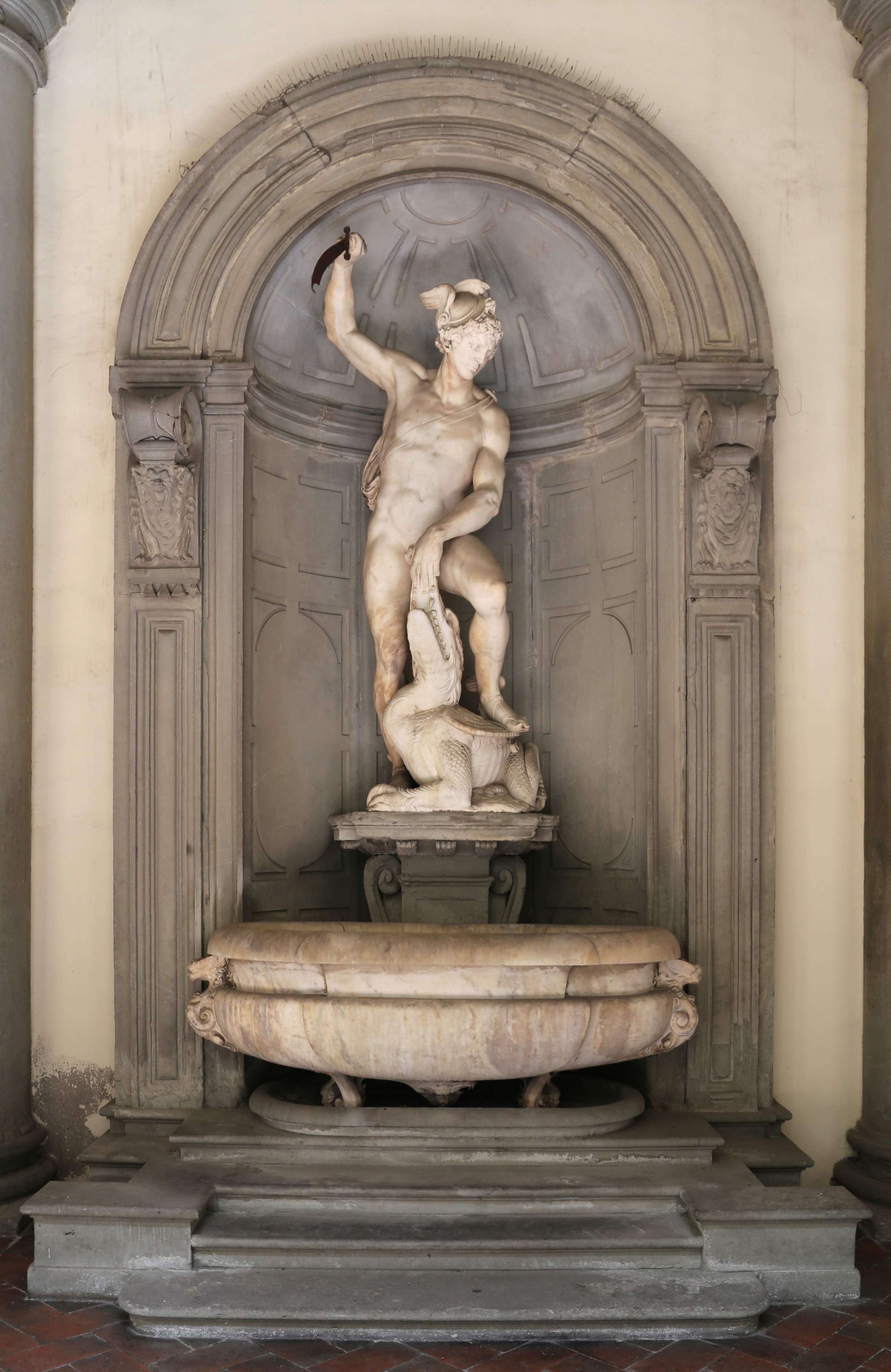 Palazzo Nonfinito